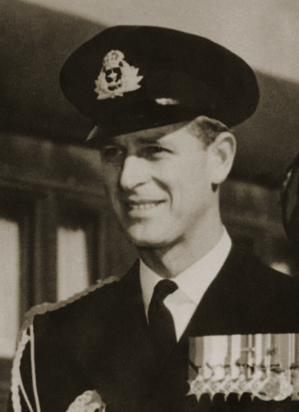 Prince Philip on a tour of Canada